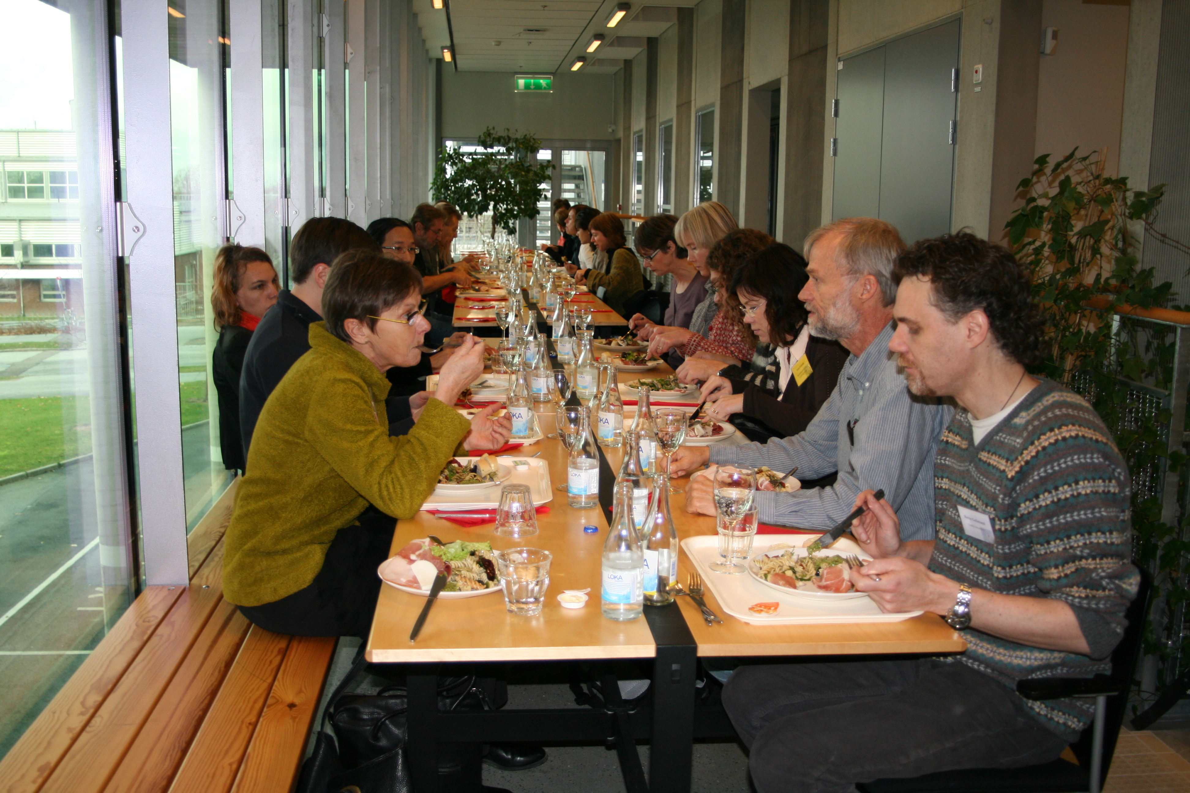 Wikipedia Academy 2008 in Lund, Sweden. Lunch during day 2.